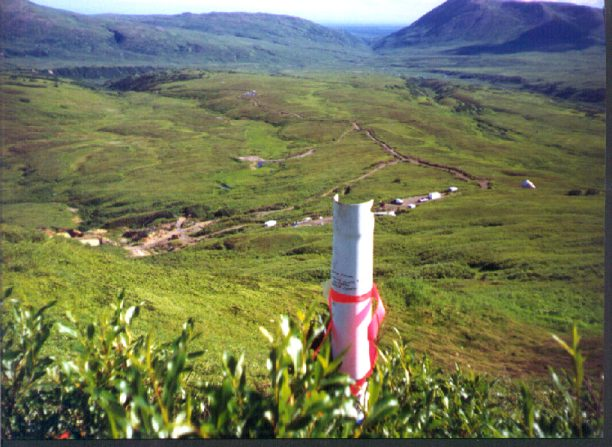 This is one of the corners at my mining claim in Alaska.